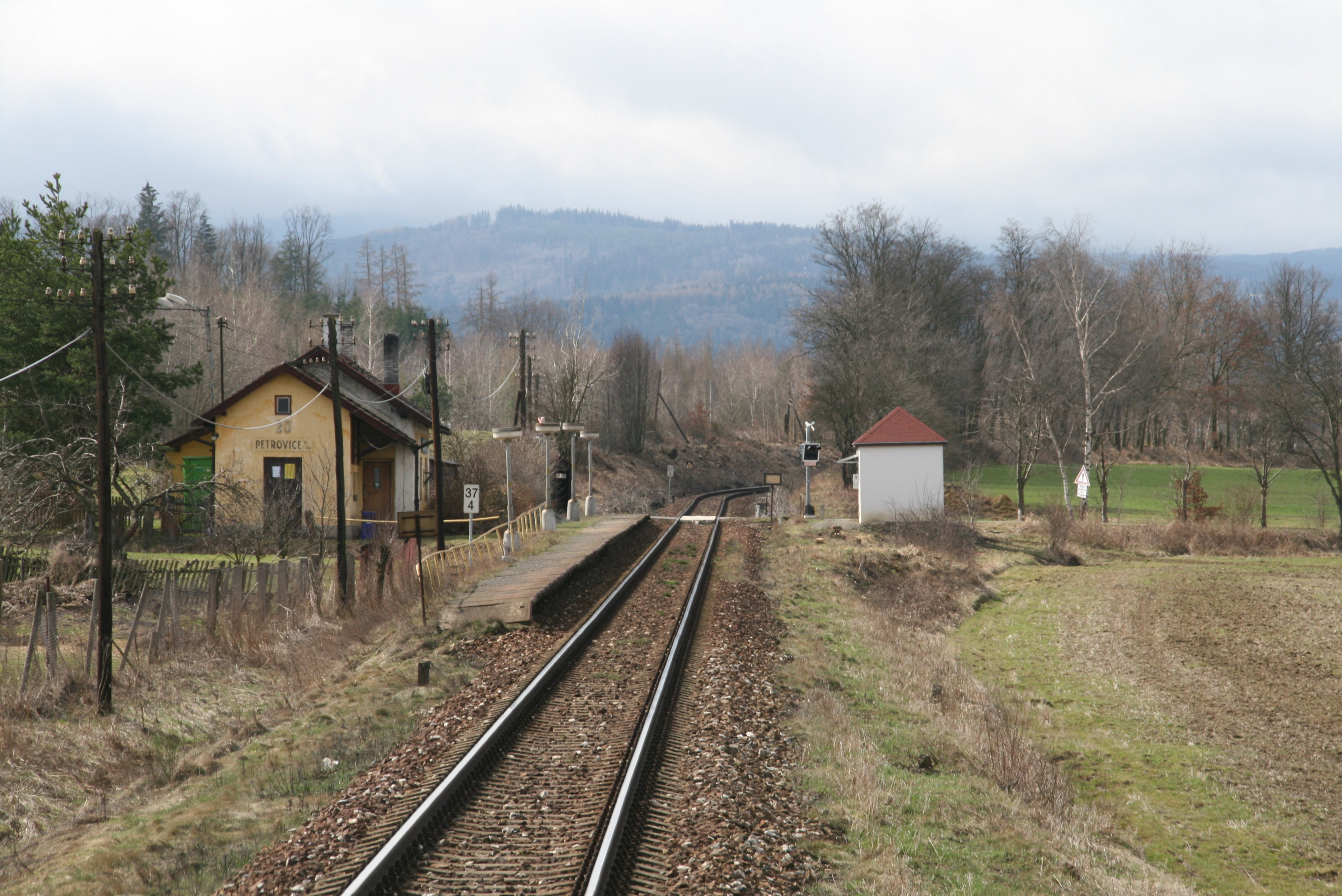 Train station Petrovice nad Úhlavou, Czech Republic